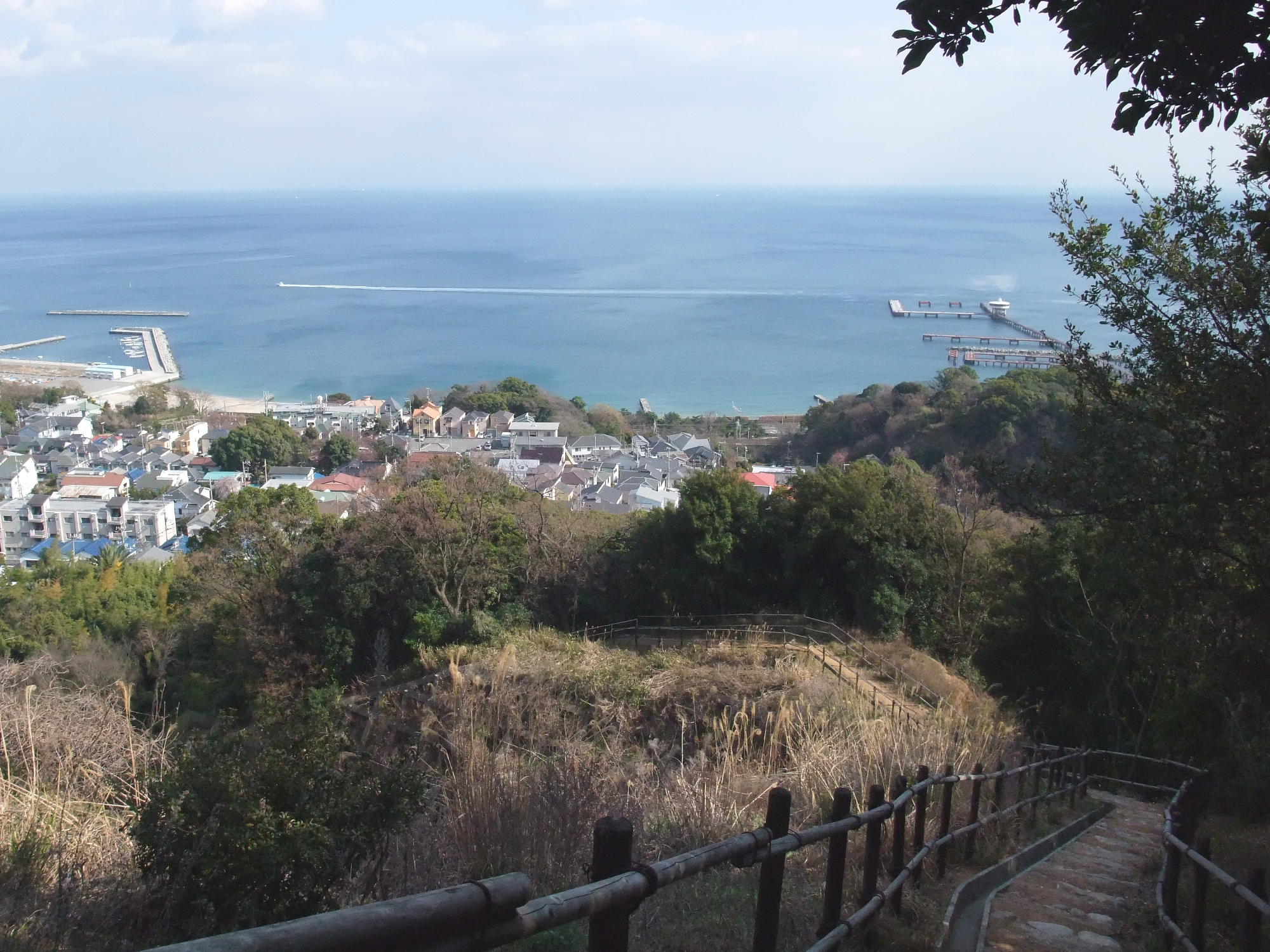 View of Sumaura from Mt. Tekkai in Kobe, the location of "Battle of Ichi-no-Tani"